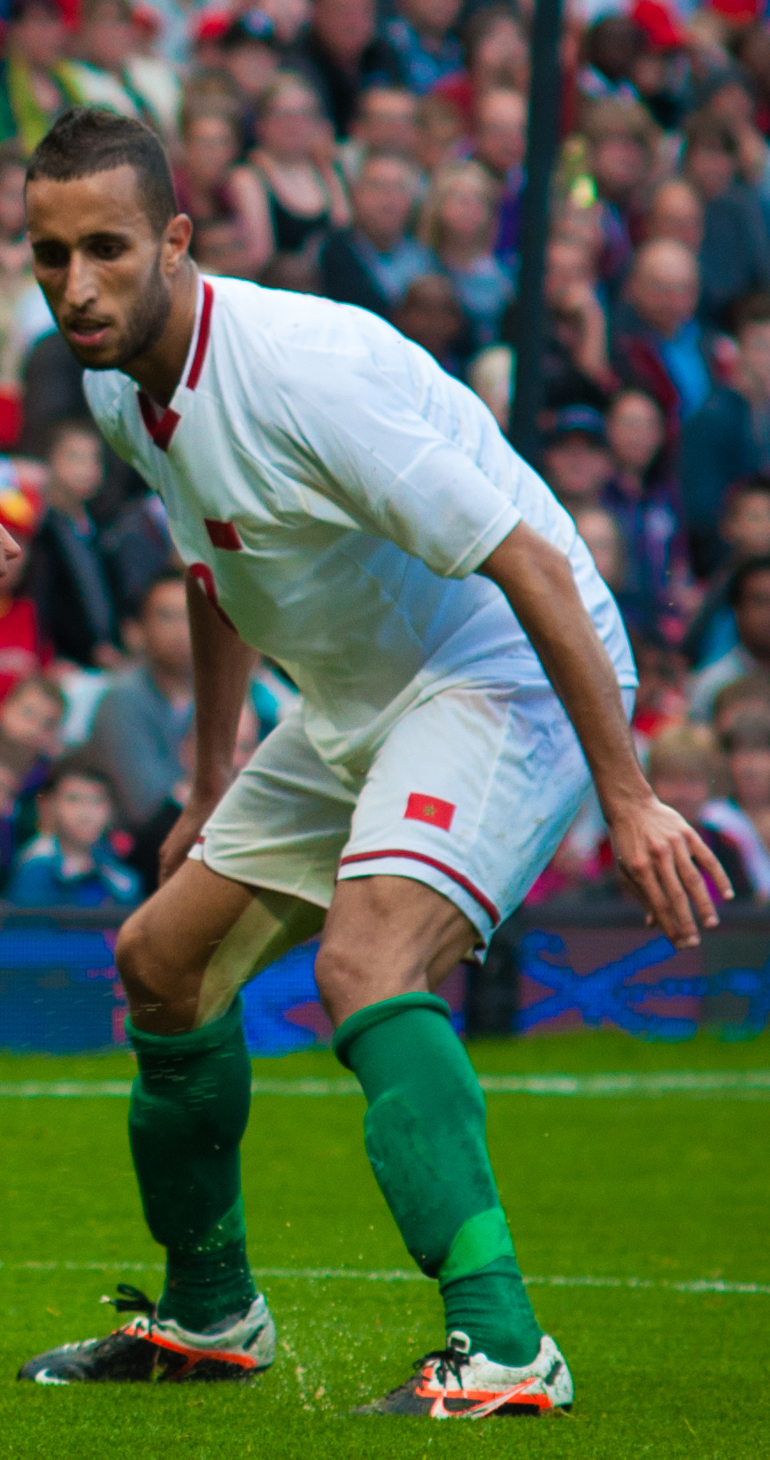 Cristian Tello and Mohamed Abarhoun